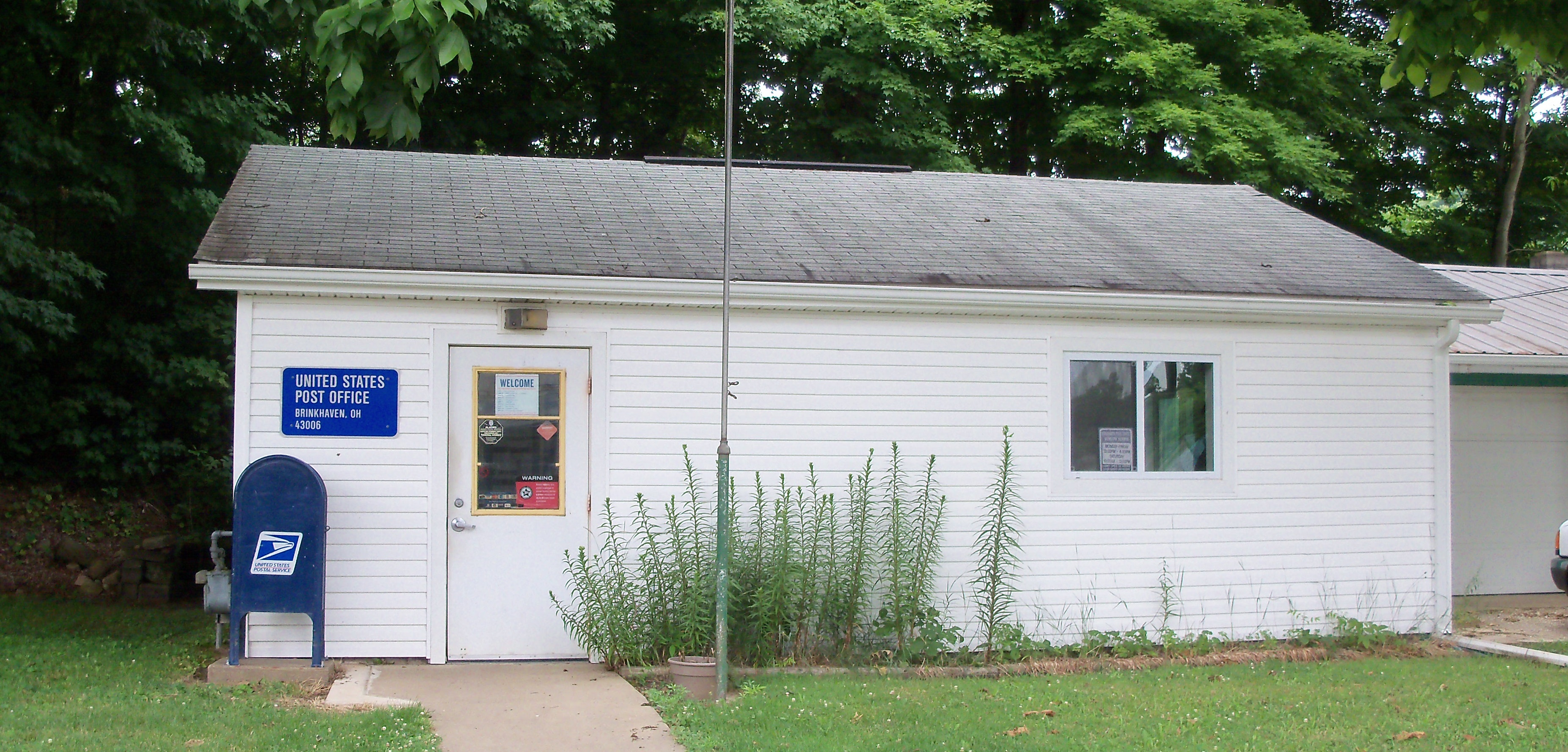 Brinkhaven, Ohio Post Office in Gann, Ohio